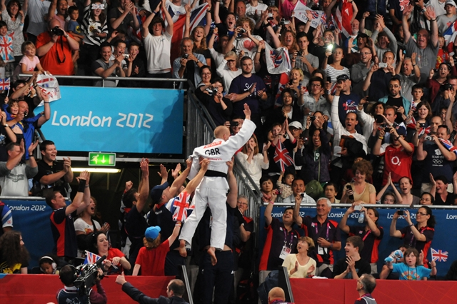 London Paralympic Games-2012 by Ilgar Jafarov